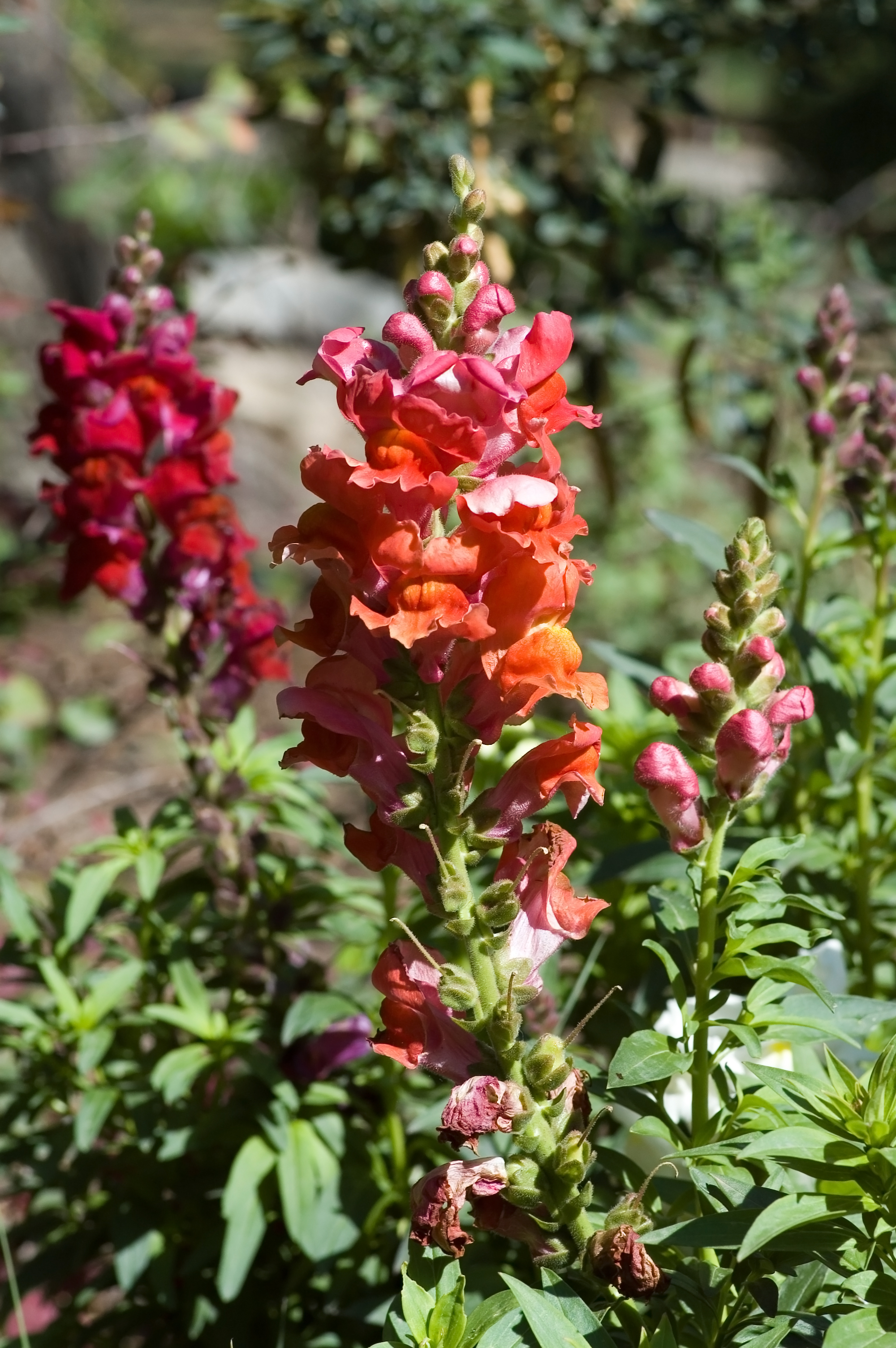 Antirrhinum majus growing in San Antonio, Texas.